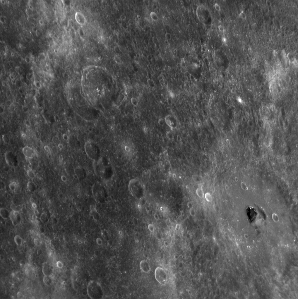 The crater in the lower right-hand corner of this image has a patch of very dark material located near its centre. The region of this image has been seen only with the Sun high overhead in the sky. Such lighting conditions are good for recognizing colour differences of rocks but not well suited for ascertaining the topography of surface features from shadows. The shape of the surface in this area is difficult to resolve given the lighting angle, but the dark patch is not in shadow. The dark colour is likely due to rocks that have a different mineralogical composition from that of the surrounding surface.